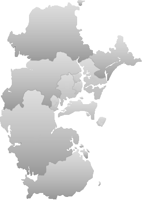 Map of Zhanjiang in Guangdong province.